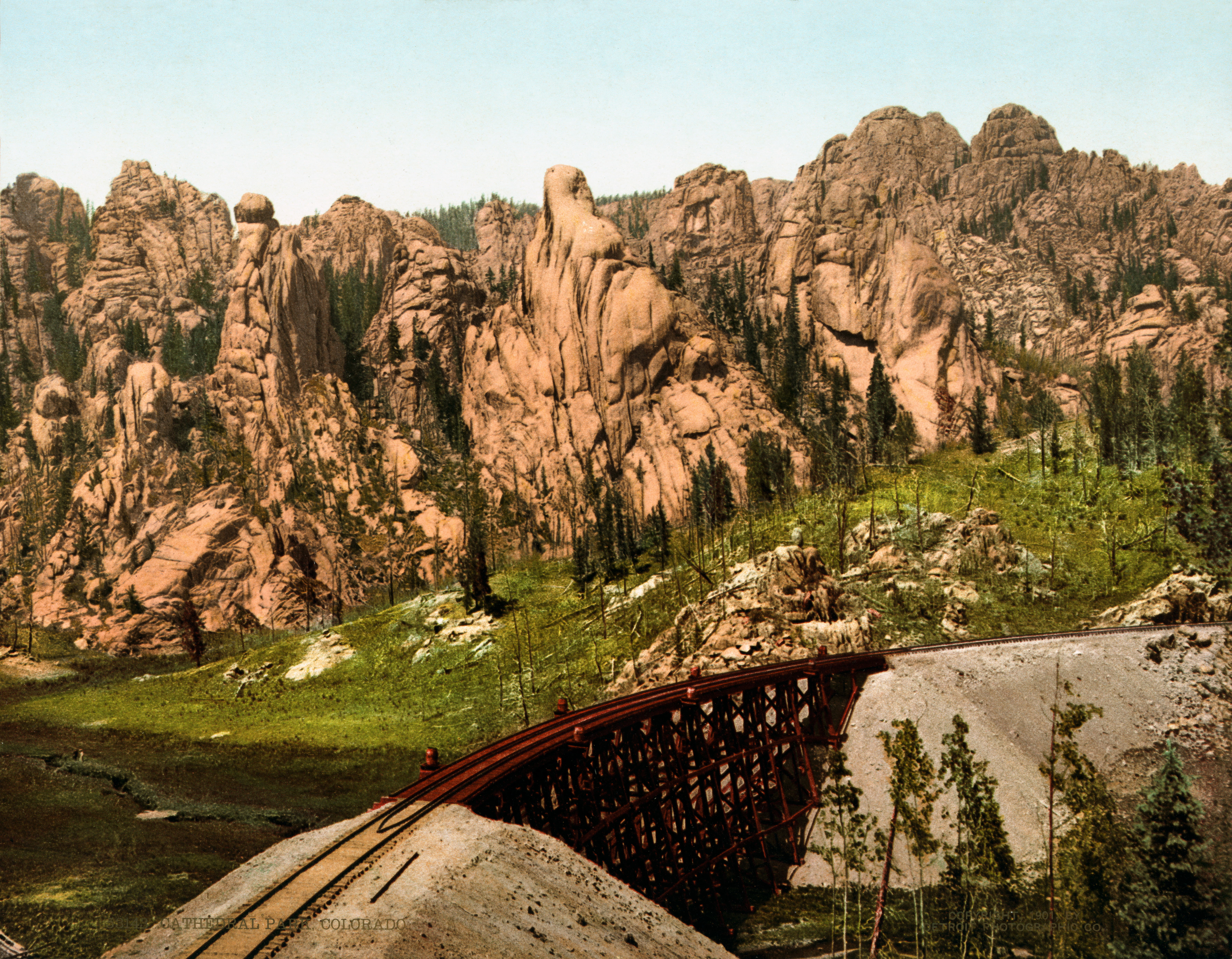 The train tracks belong to the Colorado Springs & Cripple Creek District Railway. Photochrom print by the Detroit Photographic Co., copyrighted 1901. From the Photochrom Prints Collection at the Library of Congress More photochroms from Colorado & the United States | More photochrom prints [PD] This picture is in the public domain